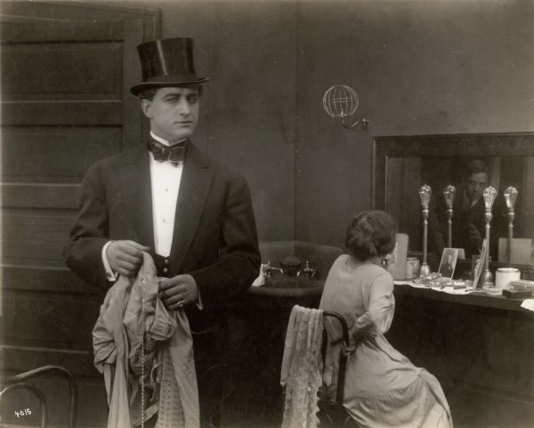 Scene still for the 1914 Essanay production Ashes of Hope with Francis X. Bushman and Ruth Stonehouse.